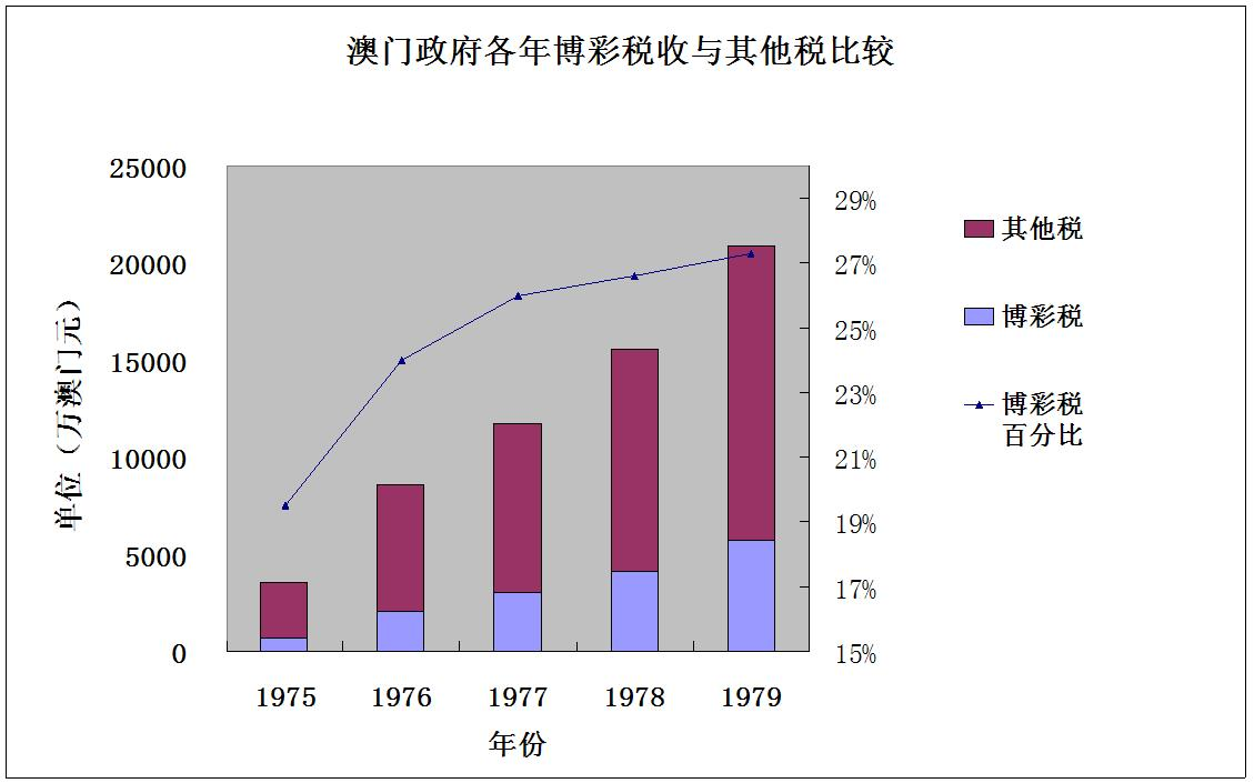 Macao gambling tax compare with other tax between 1975 and 1979